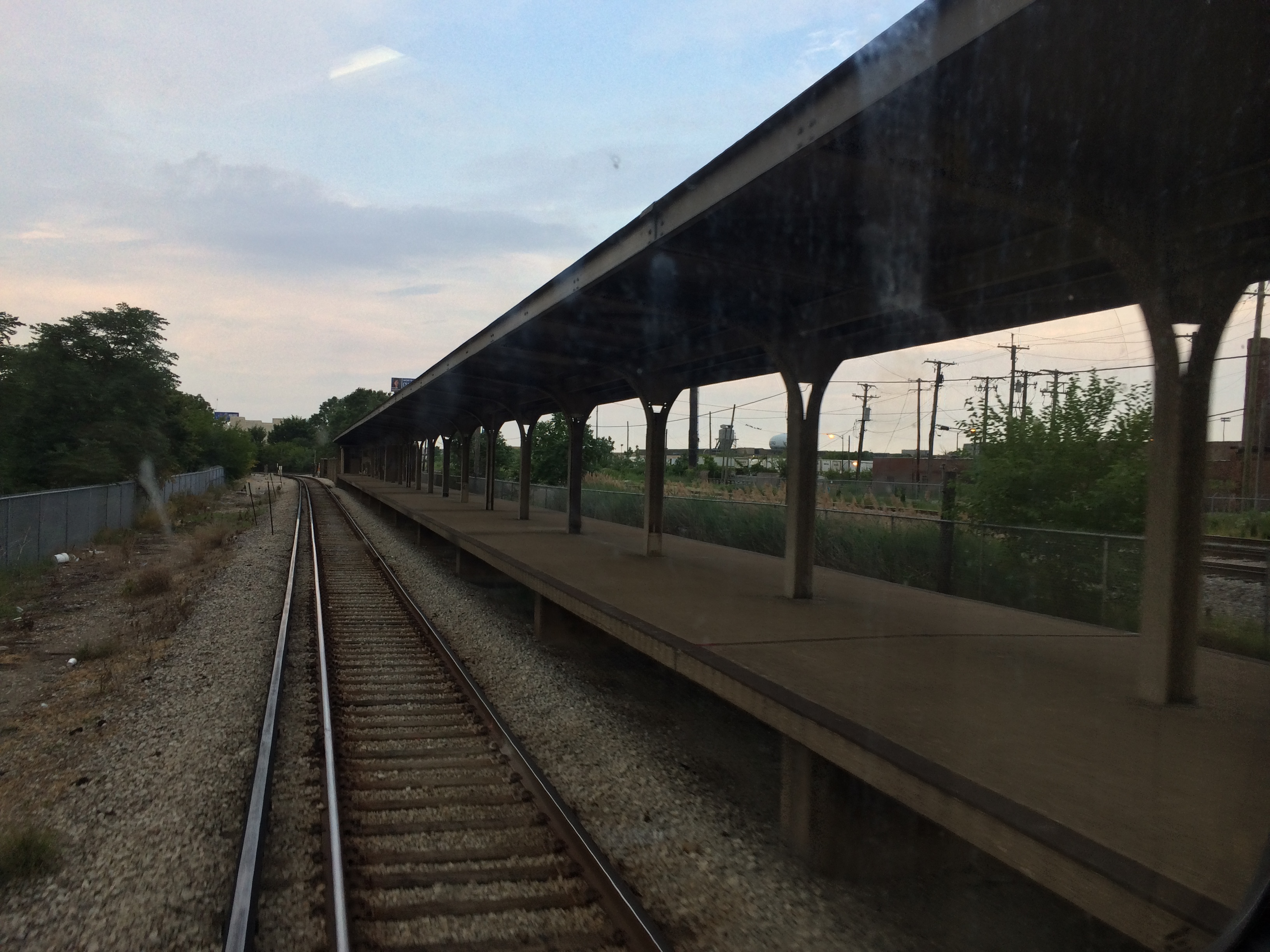 The abandoned Central station, as seen from the rear car of a CTA Blue Line train to Forest Park